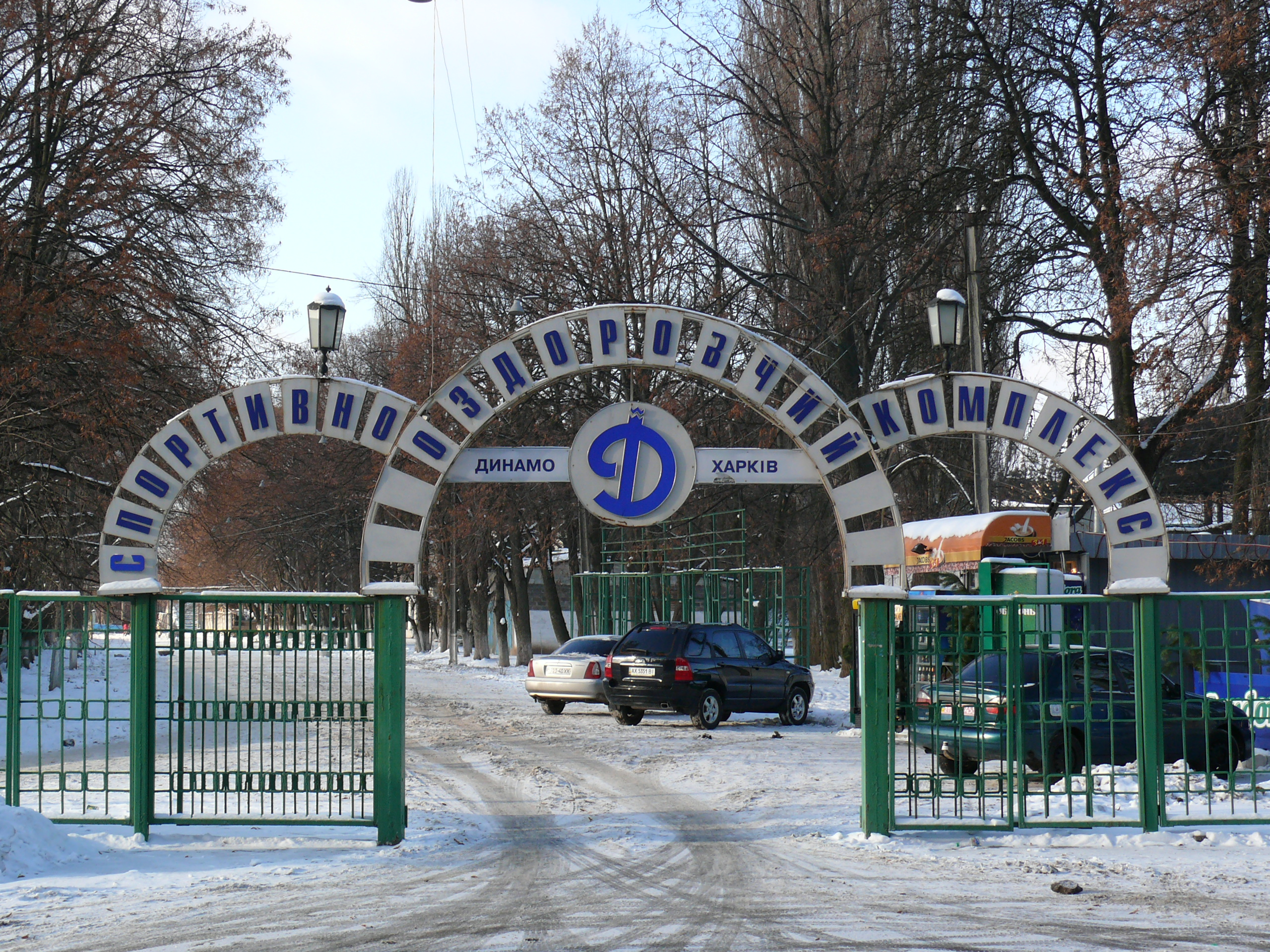 Dinamovskaya Street, 5. Dinamo Stadium in Kharkov. Winter.